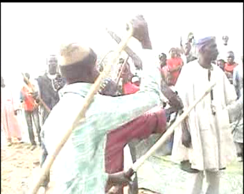 An old man and his crew displaying their talent while the musicians are hailing them during the ceremony This is an image from Nigeria